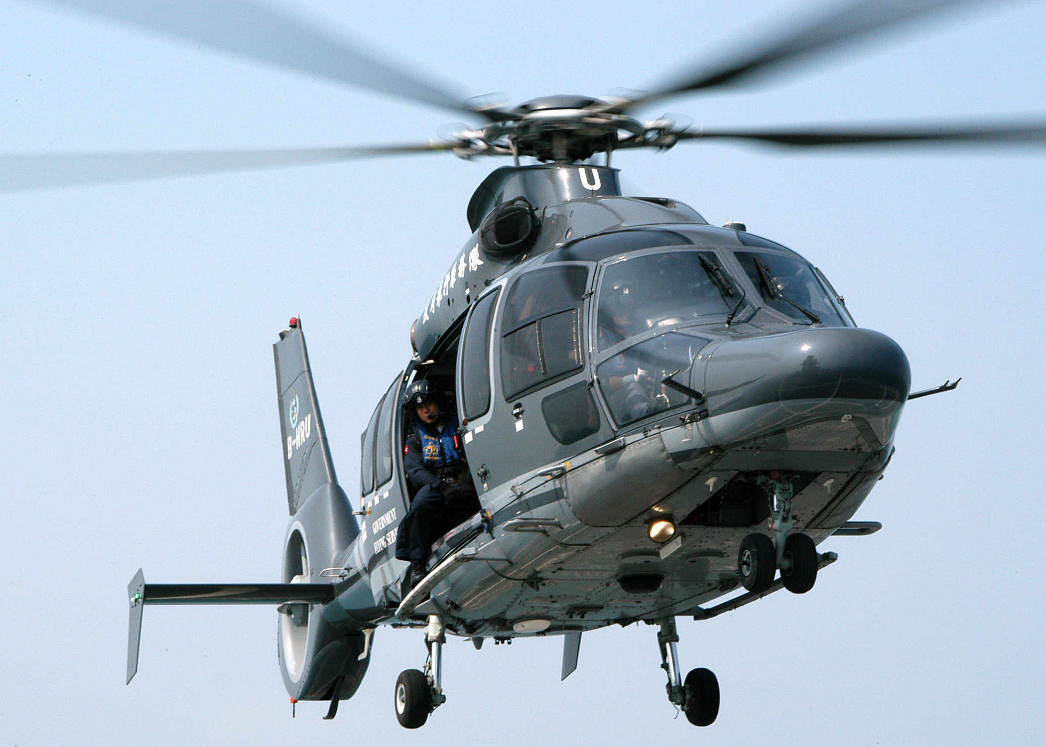 Hong Kong (Nov. 1, 2003) -- A Hong Kong Government Services EC 155 Dauphin helicopter hovers over the flight deck of USS Blue Ridge (LCC 19) during joint training with the Seventh Fleet Flag Ship in Hong Kong harbor. U.S. Navy photo by Photographer’s Mate 1st Class Novia E. Harrington. (RELEASED)